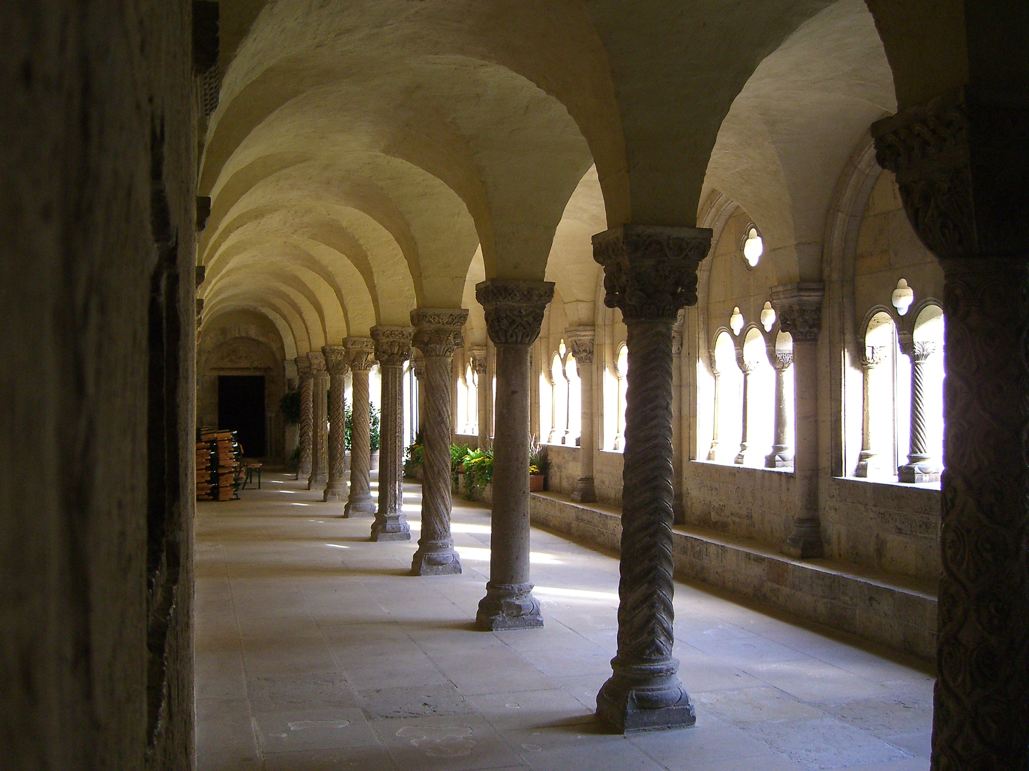 Cloister at the monastery church (Kaiserdom) in Königslutter.